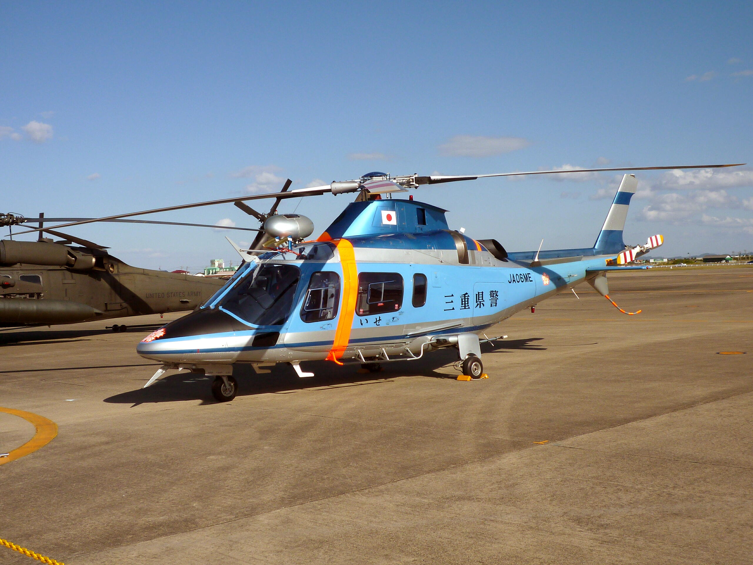 Mie Prefectural Police, Agusta A109E, JA06ME, Akeno Air Field